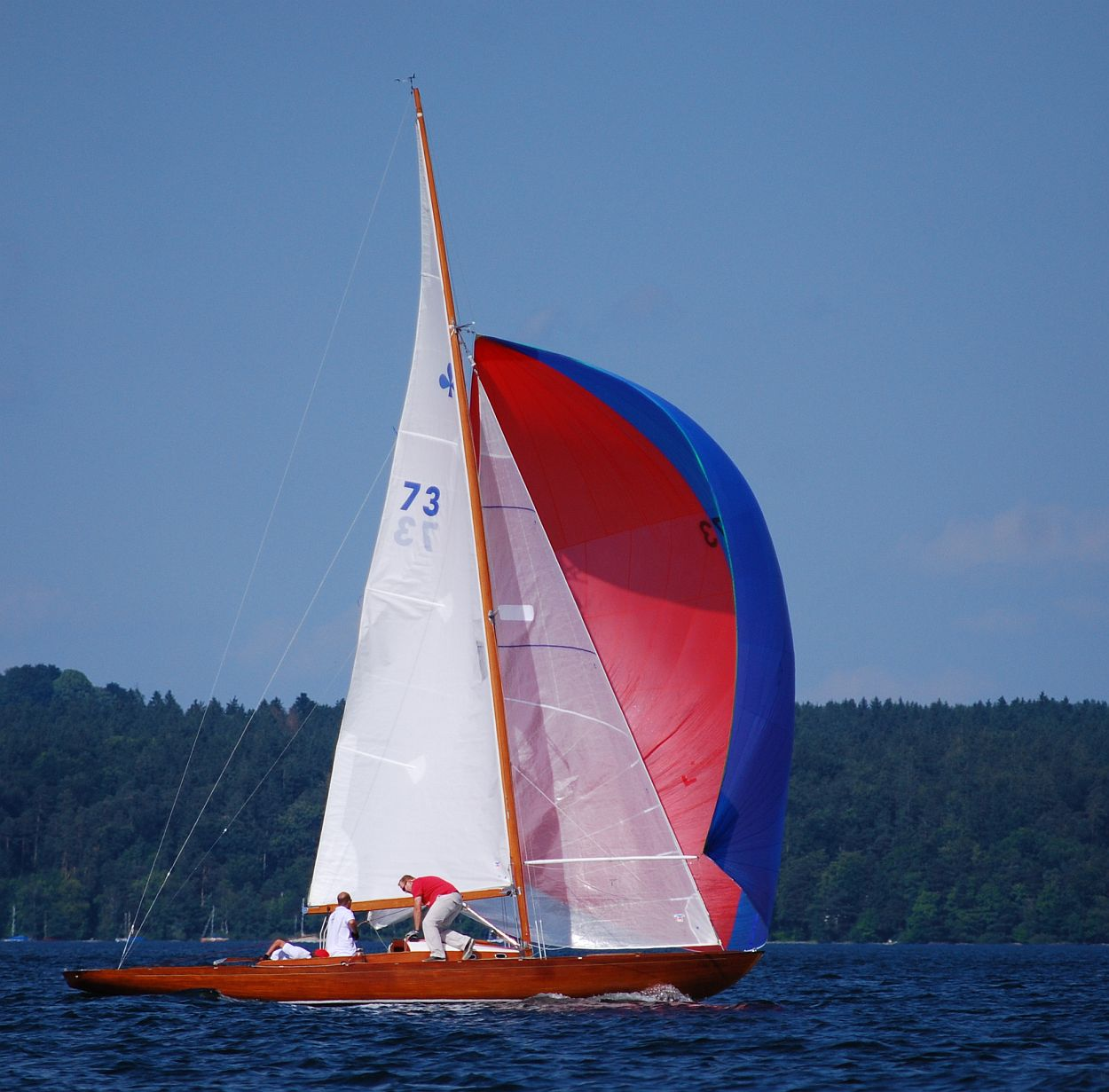 Lacustre Sail Boat